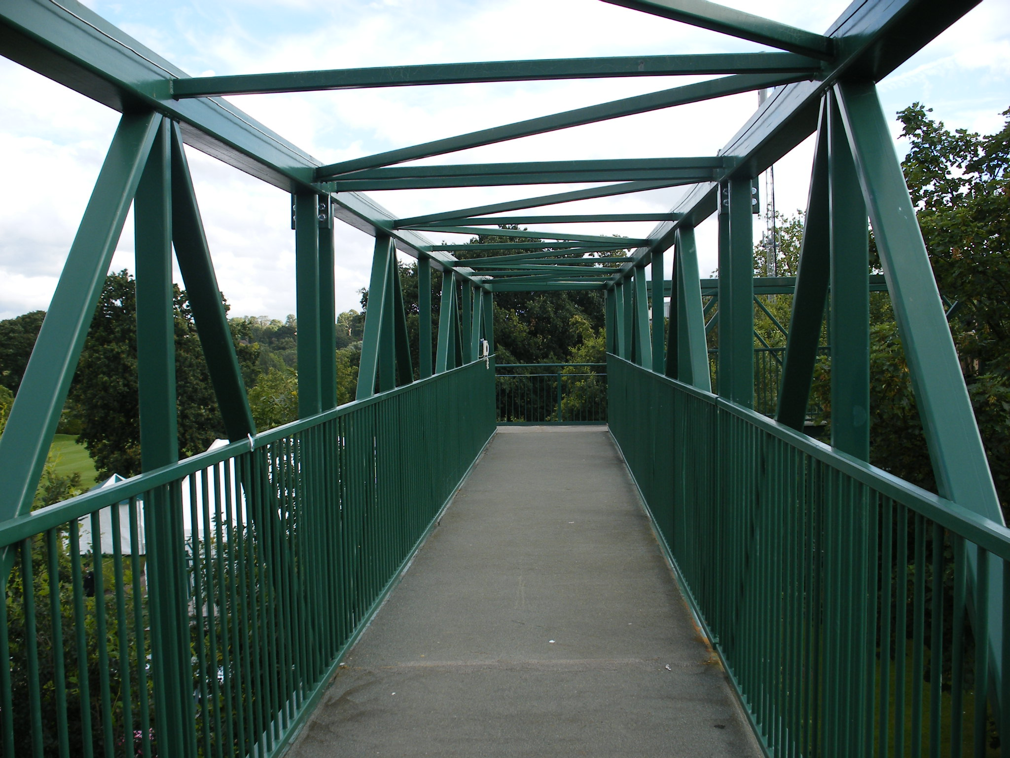 Part of the bridge in the last stages of the queue to get into Wimbledon